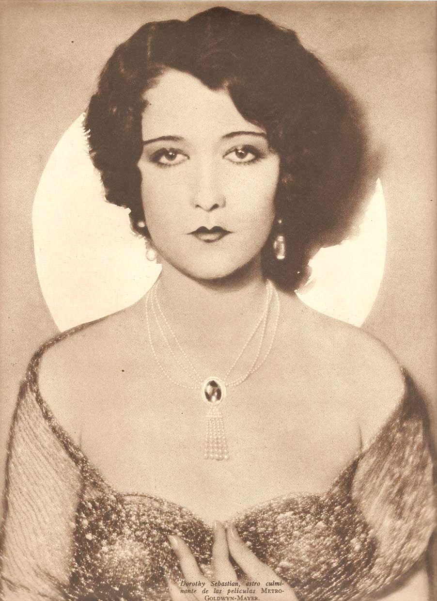 Publicity photo of Dorothy Sebastian for Argentinean Magazine. (Printed in USA)